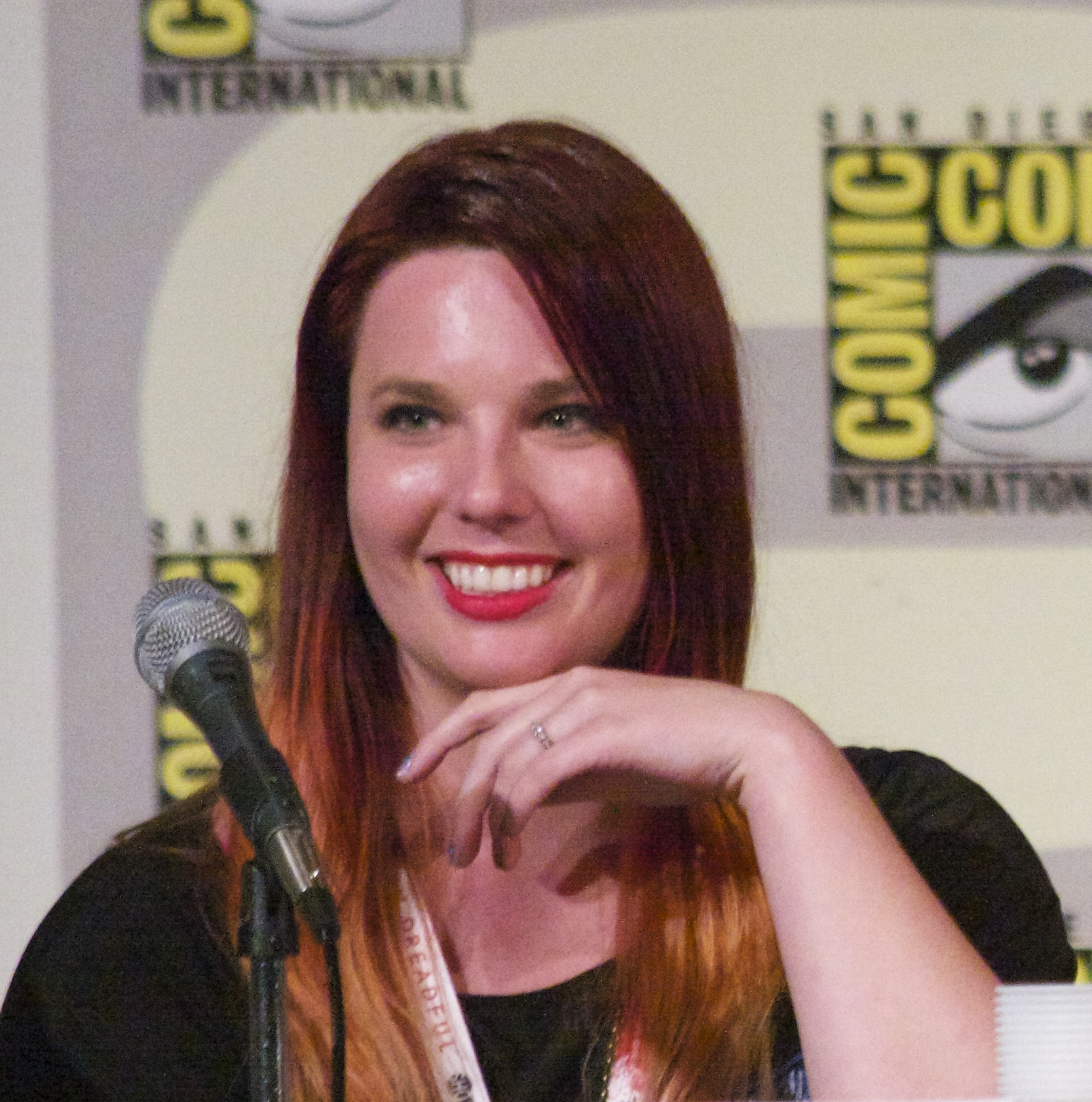 Lindsay Jones at Rooster Teeth's panel at the 2015 Comic-Con International in San Diego.